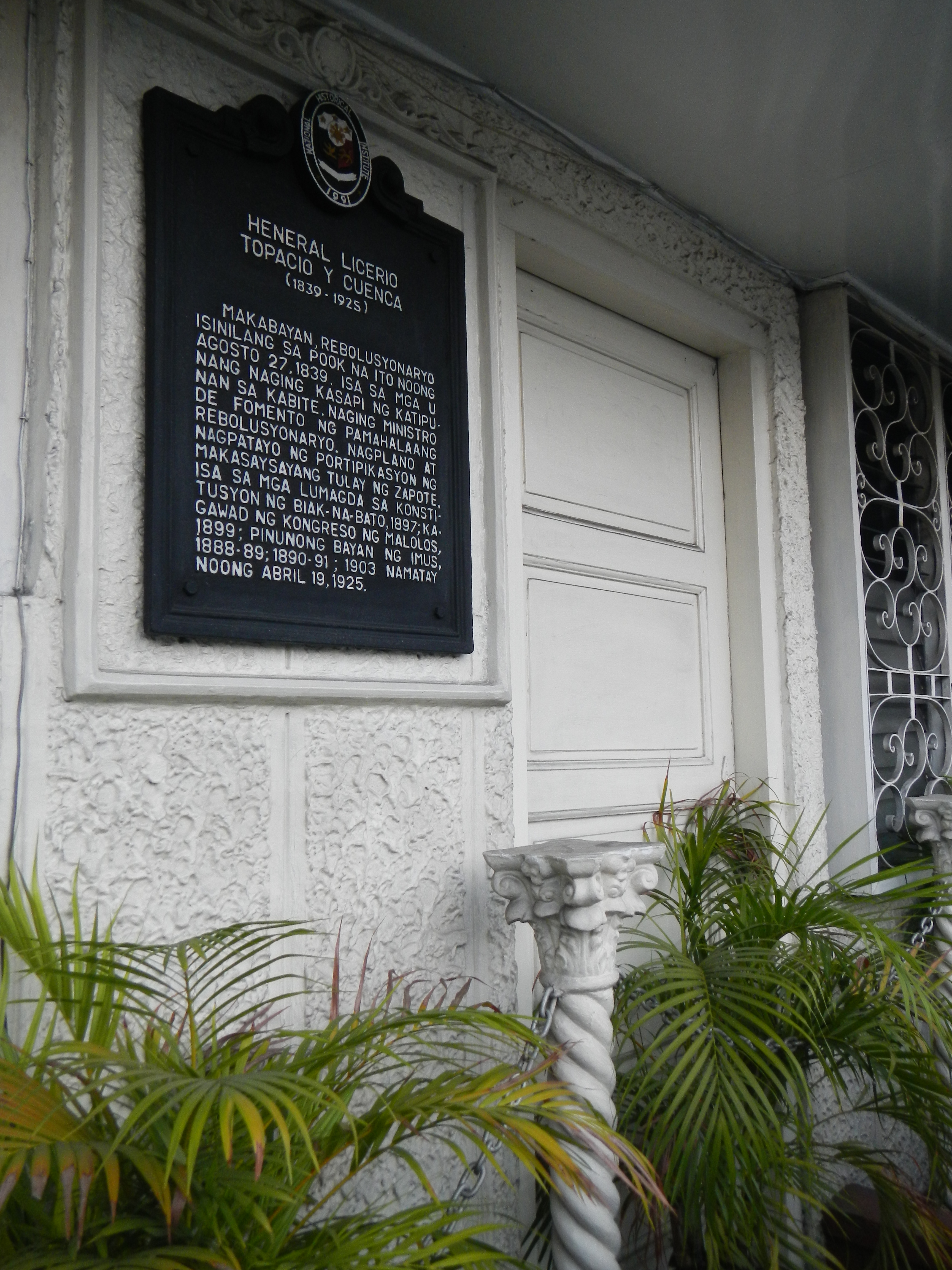 Licerio Topacio[1] y Cuenca[2] Imus Plaza; [3] Imus Municipal Hall (Imus City, Cavite) Coordinates: 14°25'42"N 120°56'9"E[4] Imus City Proper (Imus City, Cavite) Coordinates: 14°25'54"N 120°56'11"E -- Imus[5] The City of Imus (Filipino: Lungsod ng Imus) is the officially designated capital city of the province of Cavite in the Philippines. The former municipality was officially converted into a city following a referendum on June 30, 2012. Based on the 2010 local government unit (LGU) income of Imus, the former town is classified as a first-class component city of Cavite with a population of 301,624 people according to the 2010 census.[6] This place is situated in Cavite, Region 4, Philippines, its geographical coordinates are 14° 25' 47" North, 120° 56' 12" East and its original name (with diacritics) is Imus. [7] Coordinates: 14°24'3"N 120°55'57"E ---[N.B. Very unfortunate and fortunate photography of Imus, Cavite: cloudy and 80% rain upon my Nikon AW100 waterproof shockproof camera. From Bulacan I took photo of Imus Cathedral and Imus Cavite starting 1:39 p.m. Caught in the rain, I did beg the Imus Cathedral in-charge to open all the Lights and he did upon Order from the Parish Office. I am so fortunate that only 2 or 3 people were inside, and nothing to block my photos; unfortunate, however, is the rain that tormented my photos but my Nikon sensor fought and I am sharing Wikimedia Commons and Wikipedia these rare, original and sole photos of Imus, Cavite, 98% never photographed since the Battle of Imus. I finished photography at 4:18 p.m. and started uploading via slow internet at 7:54 pm - I hereby certify that these photos are exclusive for Commons and Wikipedia never uploaded in any Internet or any site, and for the public domain without any condition.]